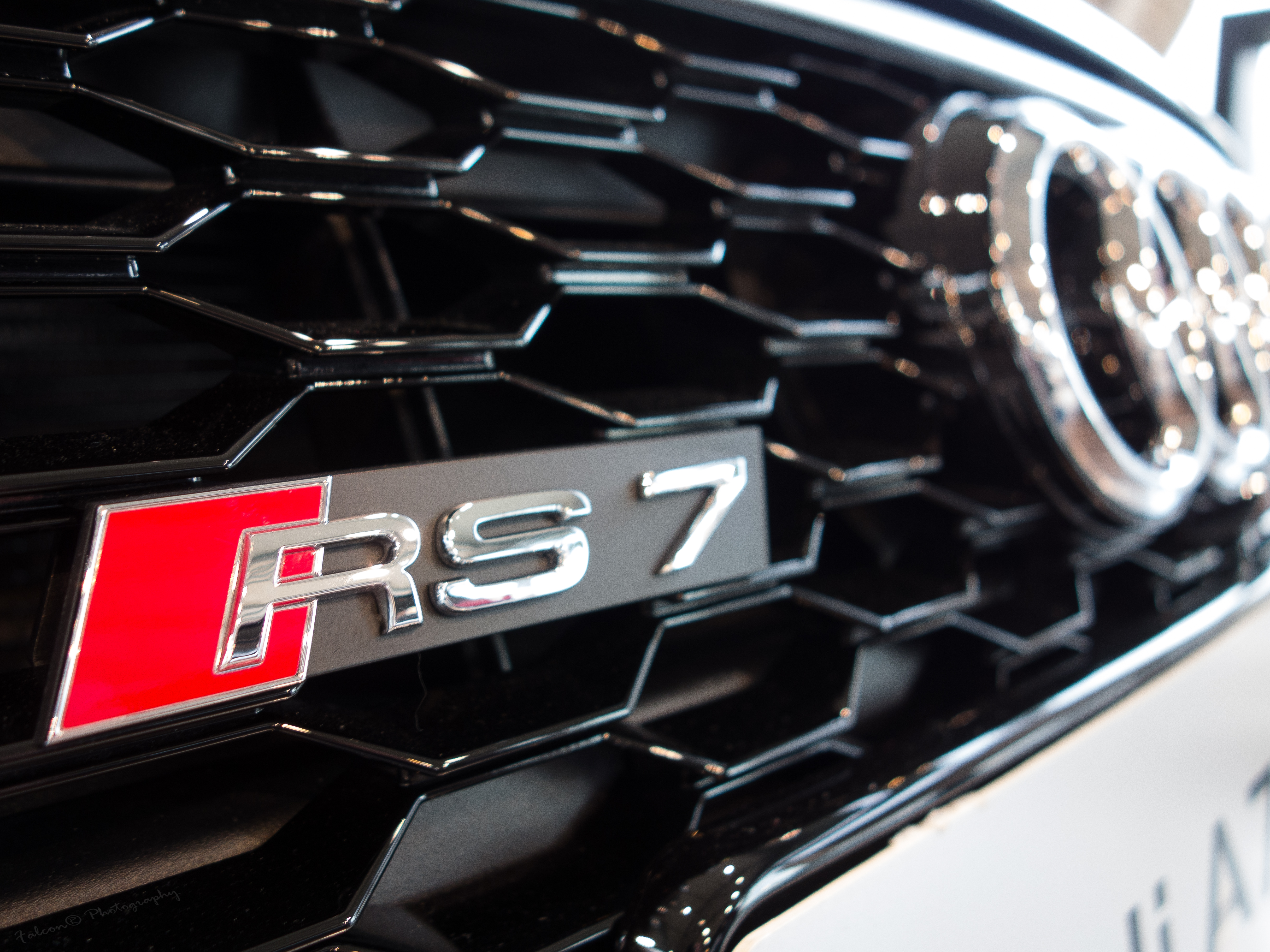 560 PS @5700-6700, 700 N·m @1750-5500 0 to 100 km/h in 3.9 seconds 305 km/h 1700kg 130 000€